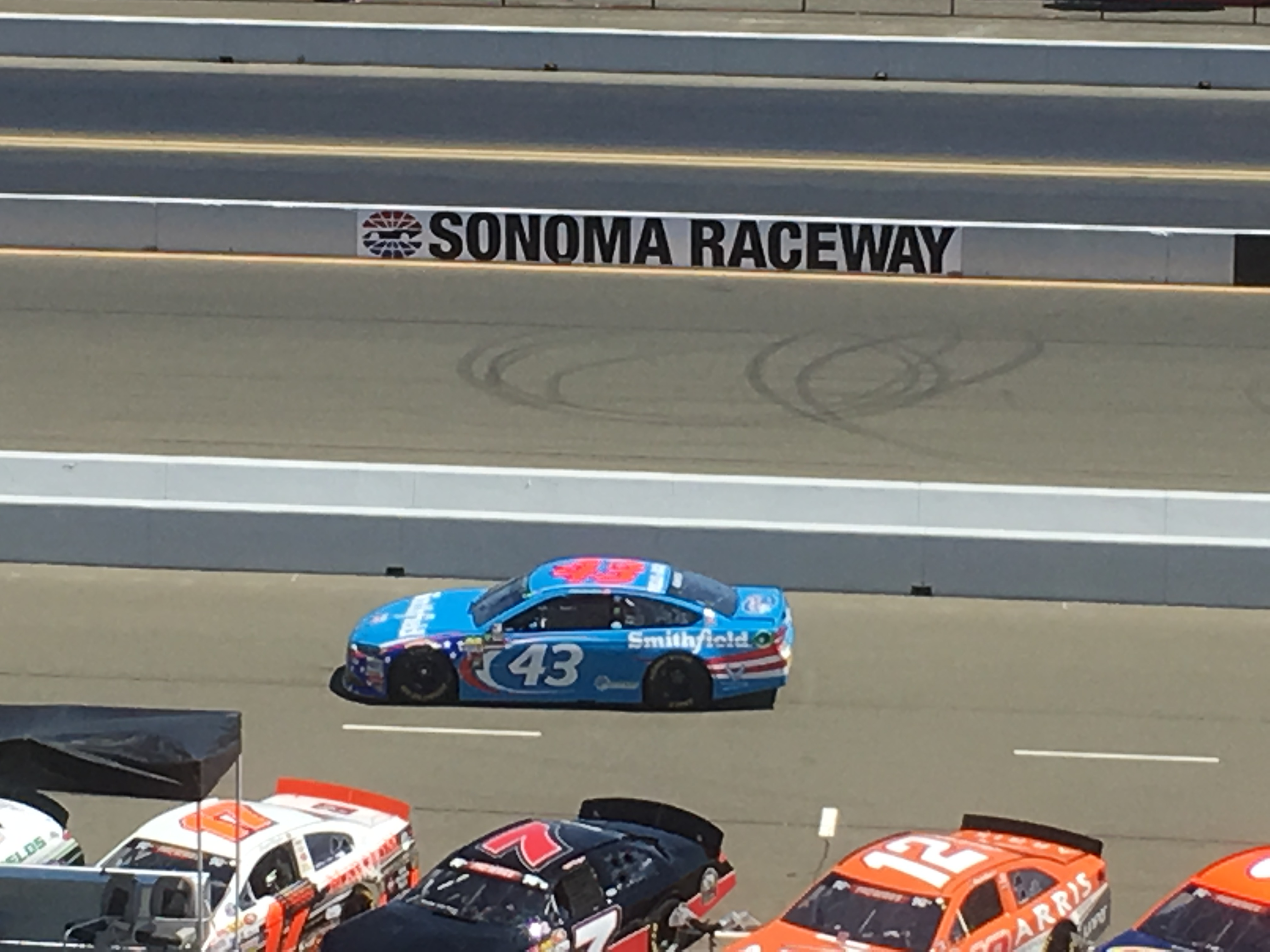 Billy Johnson during qualifying for the 2017 Toyota/Save Mart 350.